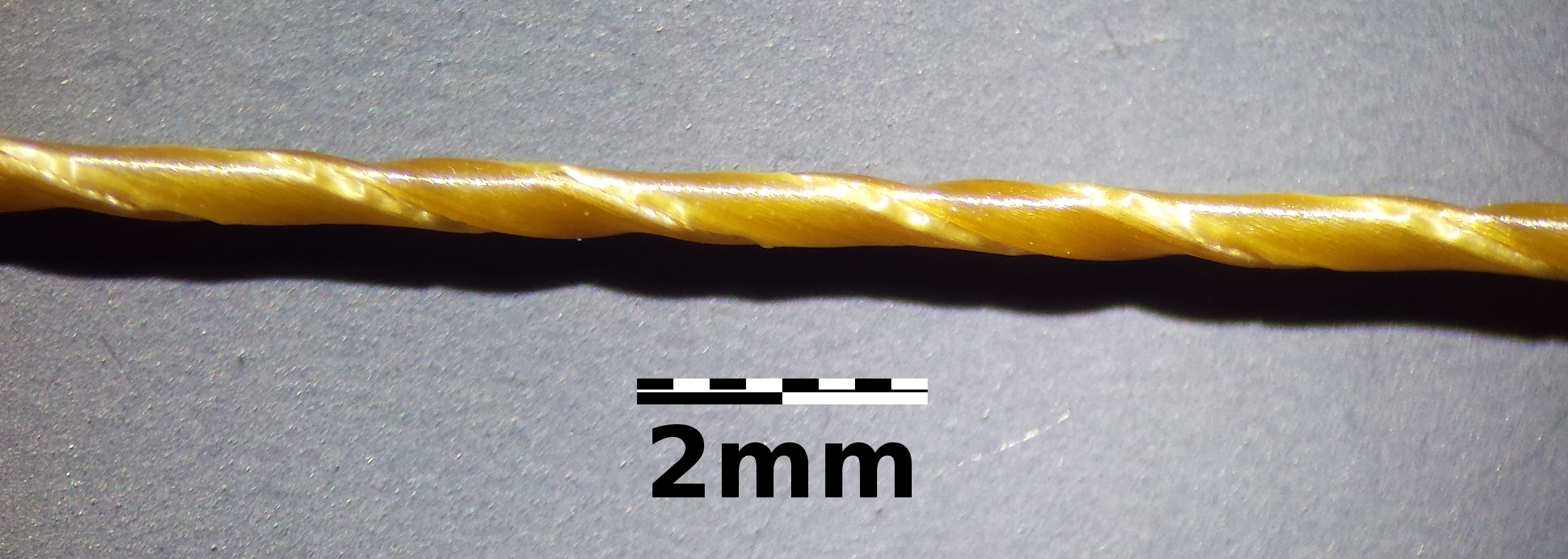 Spiral part of awn Taxon: Stipa tirsa (sensu Fischer et al. EfÖLS 2008 ISBN 978-3-85474-187-9; det. W. Adler 2014-06-21) Location: Heidberg bei Wildendürnbach, district Mistelbach, Lower Austria - ca. 250 m a.s.l. Habitat: dry grassland on ballast